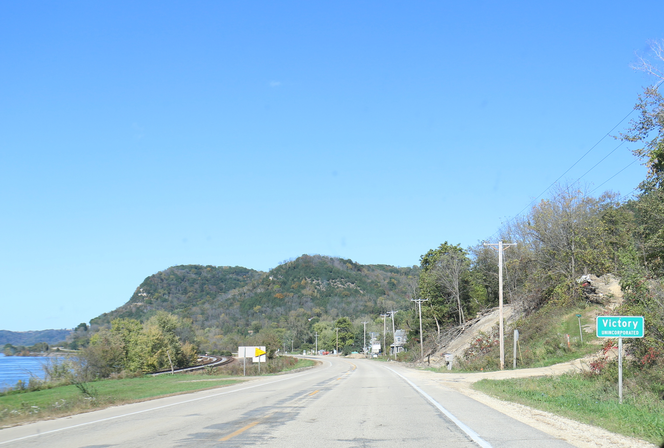 The sign for Victory, Wisconsin on WIS35.